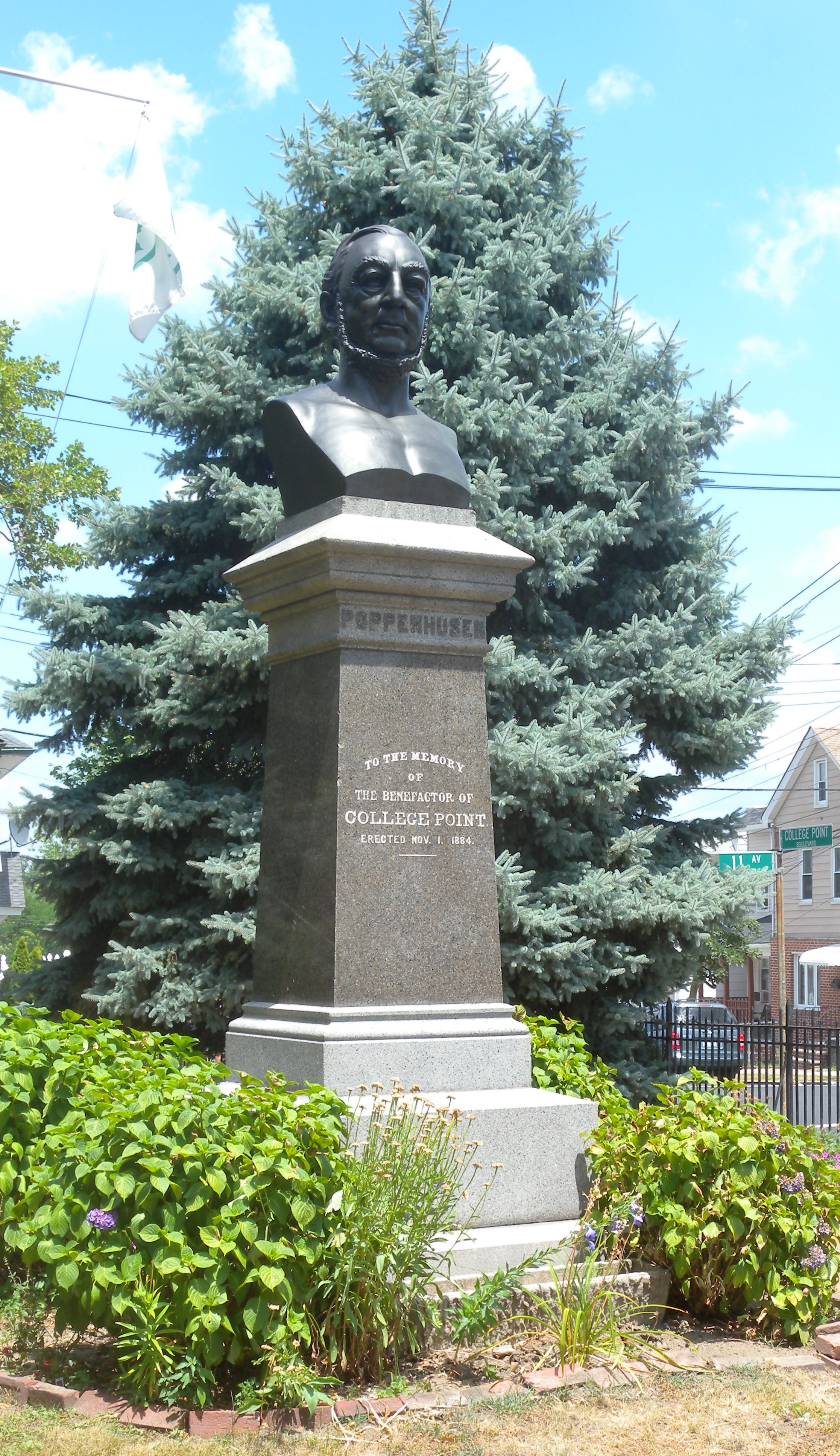 Looking northeast at monument to Conrad Poppenhusen on a mostly sunny midday.